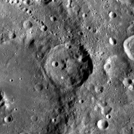 LRO-WAC . Mach at left, Orientale chains on top